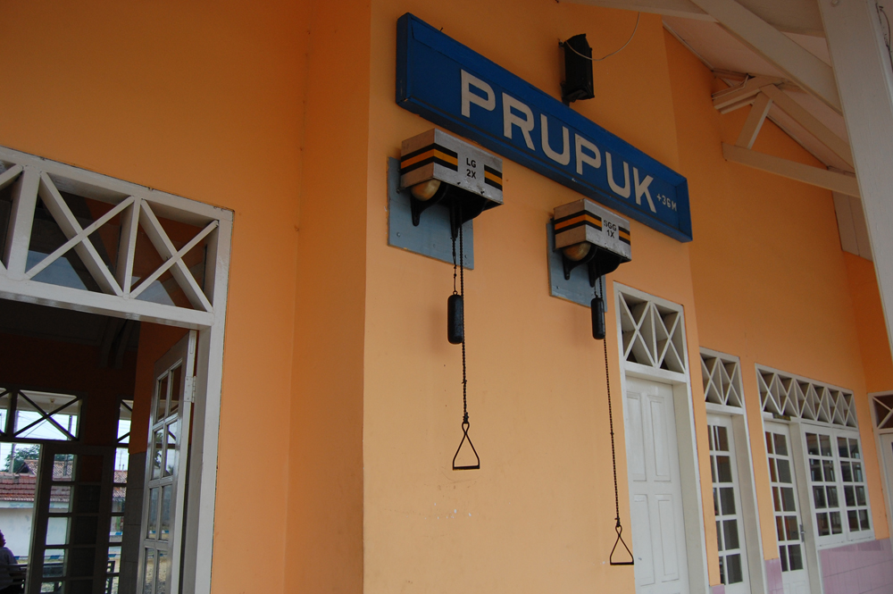 Bell signals at Prupuk (PPK) train station in Central Java.